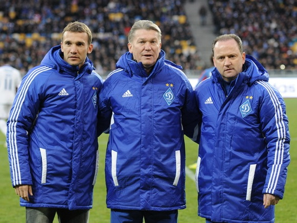 Andriy Shevchenko, Oleh Blokhin, Ihor Belanov